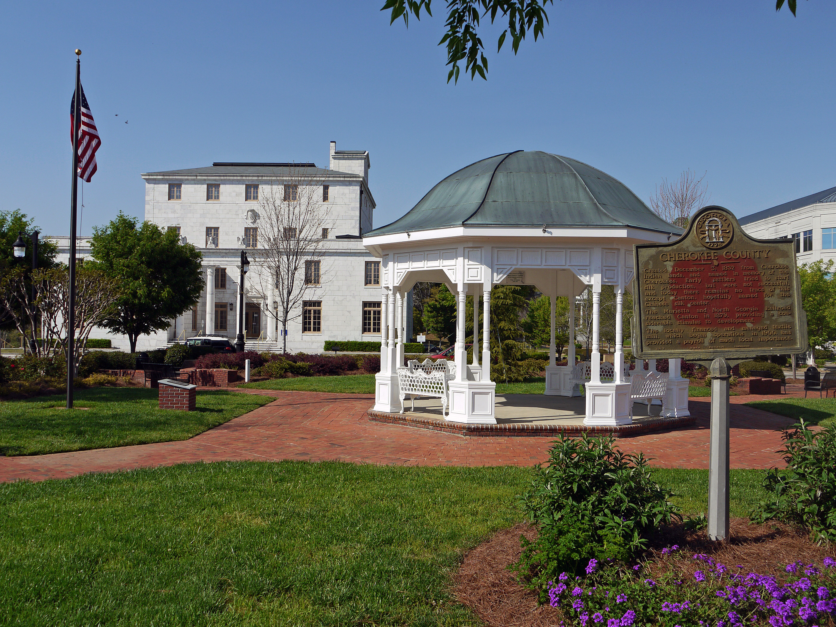 Town square, downtown Canton, GA, USA